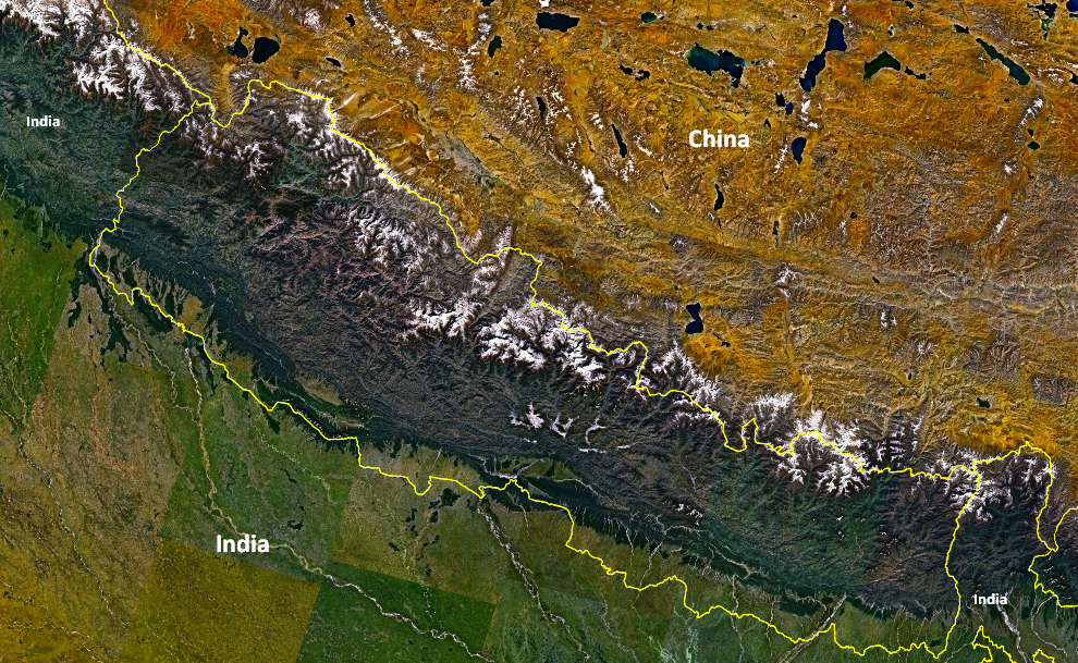 Image is from NASA Landsat 7 Visible Color. Country Names have been added by me for the convenience of users.